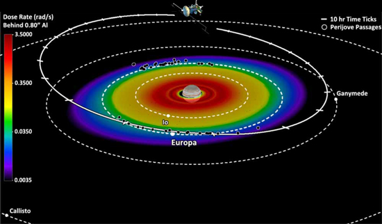 Because Europa lies well within the harsh radiation fields surrounding Jupiter, even a radiation-hardened spacecraft in near orbit would be functional for just a few months. Studies by scientists from the Jet Propulsion Laboratory show that by performing several flybys with many months to return data, the Europa Clipper concept would enable a $2B mission to conduct the most crucial measurements of the cancelled $4.3B Jupiter Europa Orbiter concept.